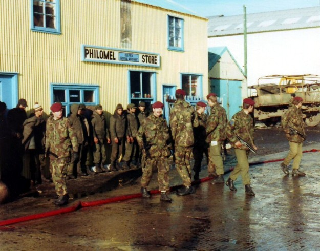 2nd Battalion, The Parachute Regiment (2 PARA) guarding Argentine prisoners of war at Port Stanley, 1982